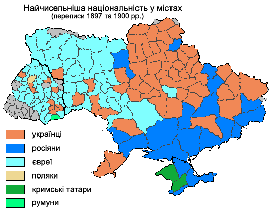 The biggest ethnic group among urban population, 1897 and 1900 censuses (orange - ukrainians, light blue - jews, dark blue - russians, light brown - poles, dark green - crimean tatars, light green - romanians)